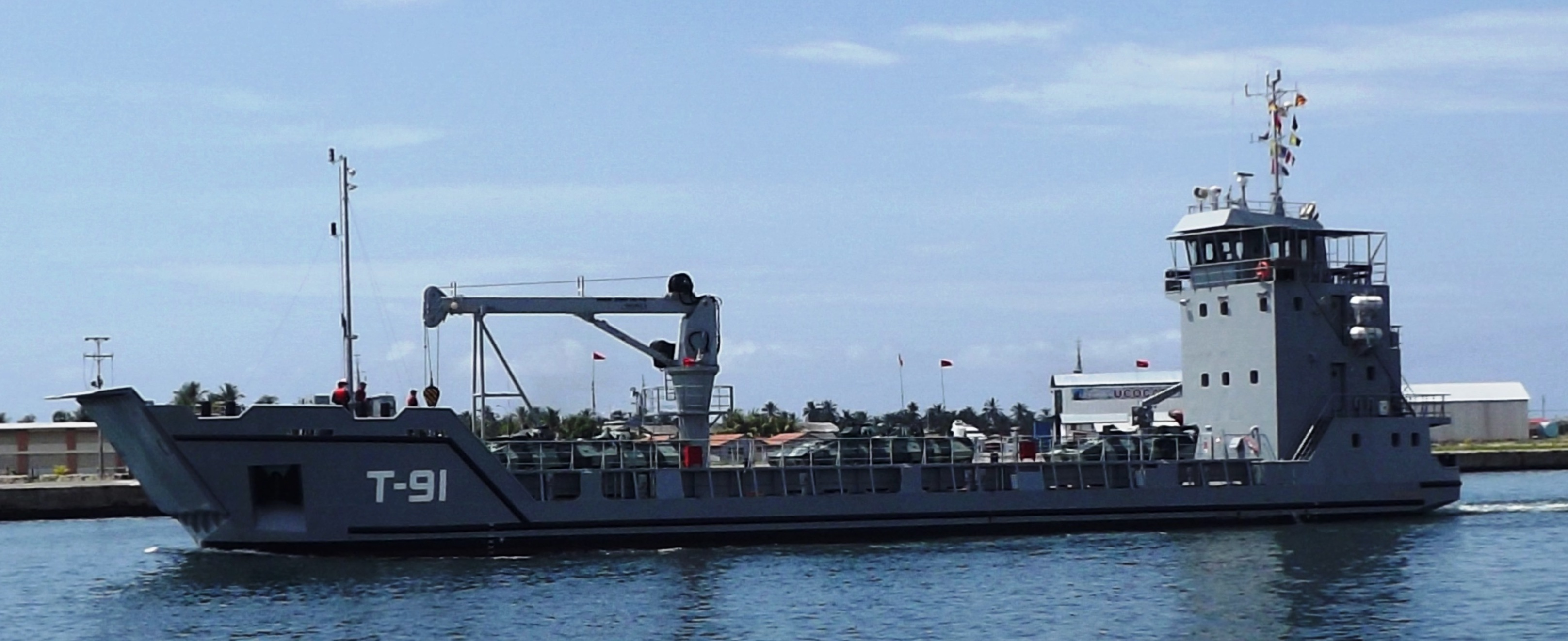 A Damen Stan Lander 5612 of the Navy of Venezuala.